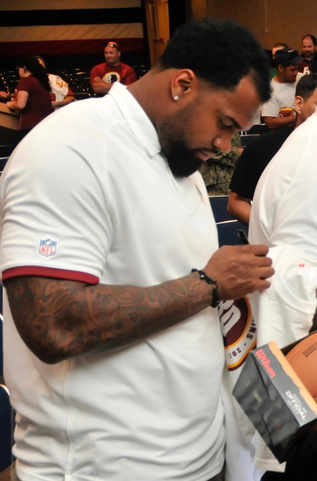 Washington Redskins defensive end, Doug Worthington signing autographs for fans during the Washington Redskins' 80th Anniversary Thank You tour pep rally held at Naval Station Norfolk on June 8, 2012.